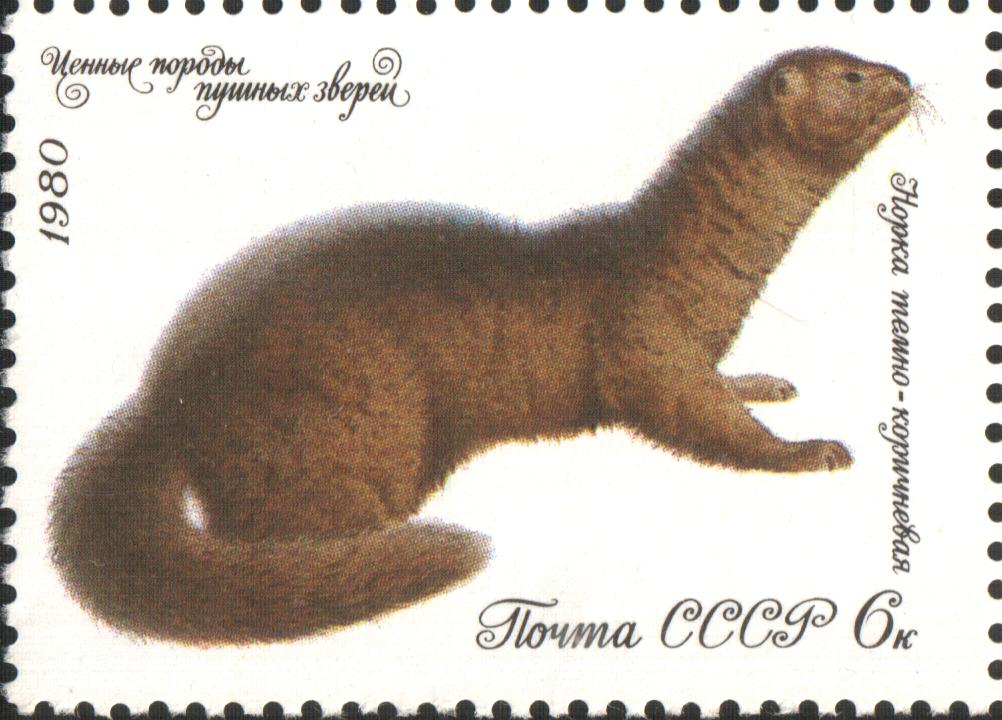 USSR stamp. Text: “Valuable breeds of fur animals. Dark brown mink”